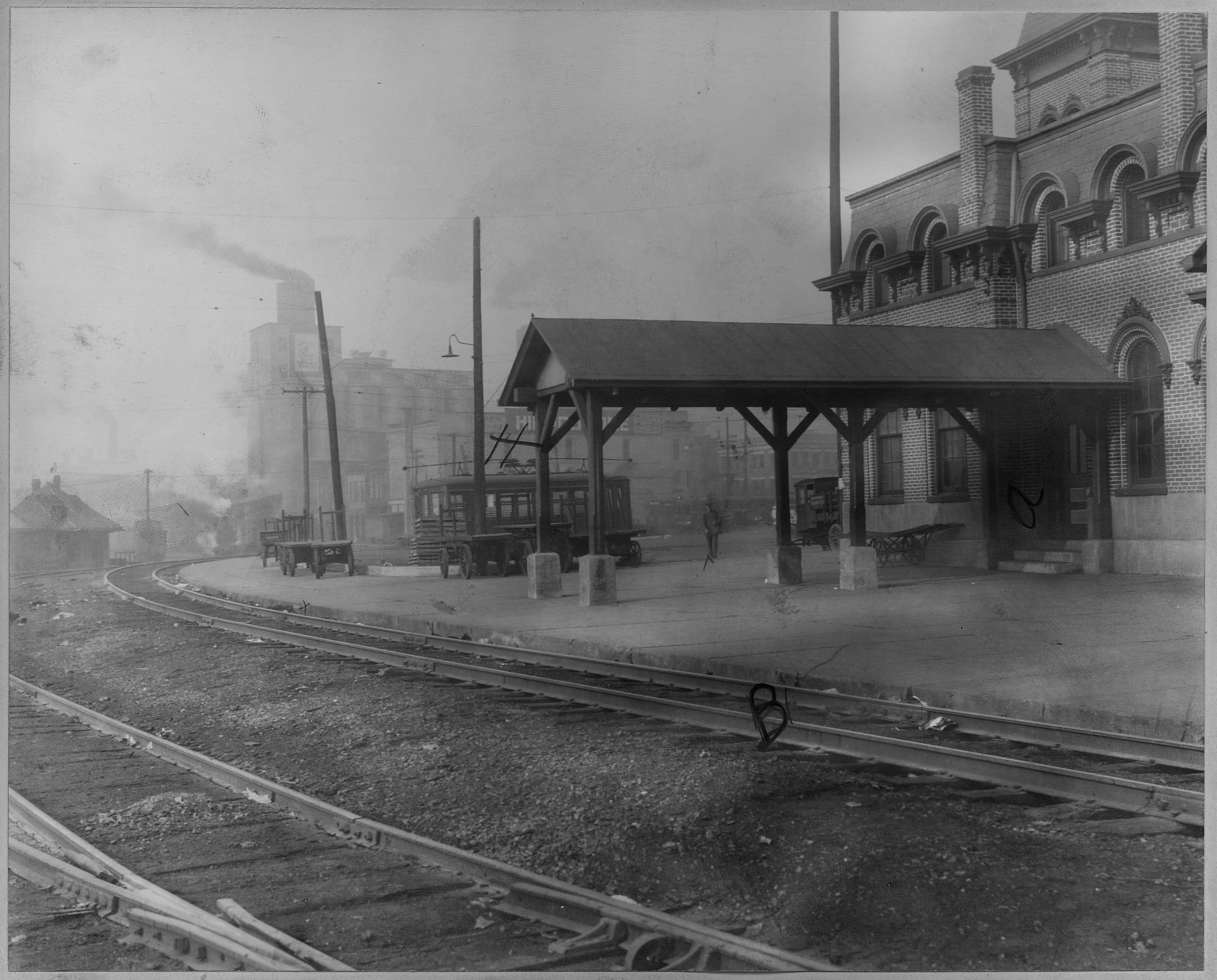 Scope and content: Views of the station showing tracks, water tank, baggage carts, and electric trolley car.